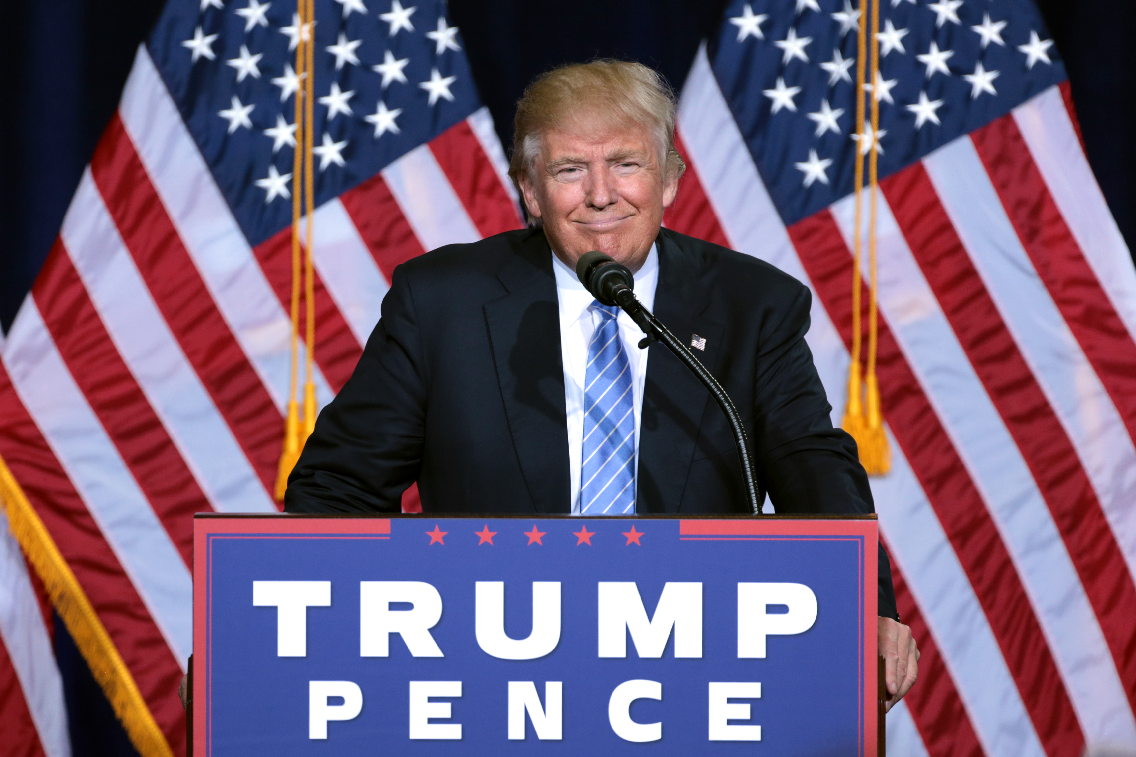 Donald Trump speaking at an immigration policy speech in Phoenix, Arizona.